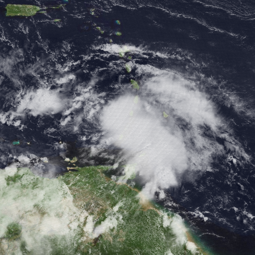 Tropical Storm Danielle at peak intensity over the Windward Islands on September 8, 1986